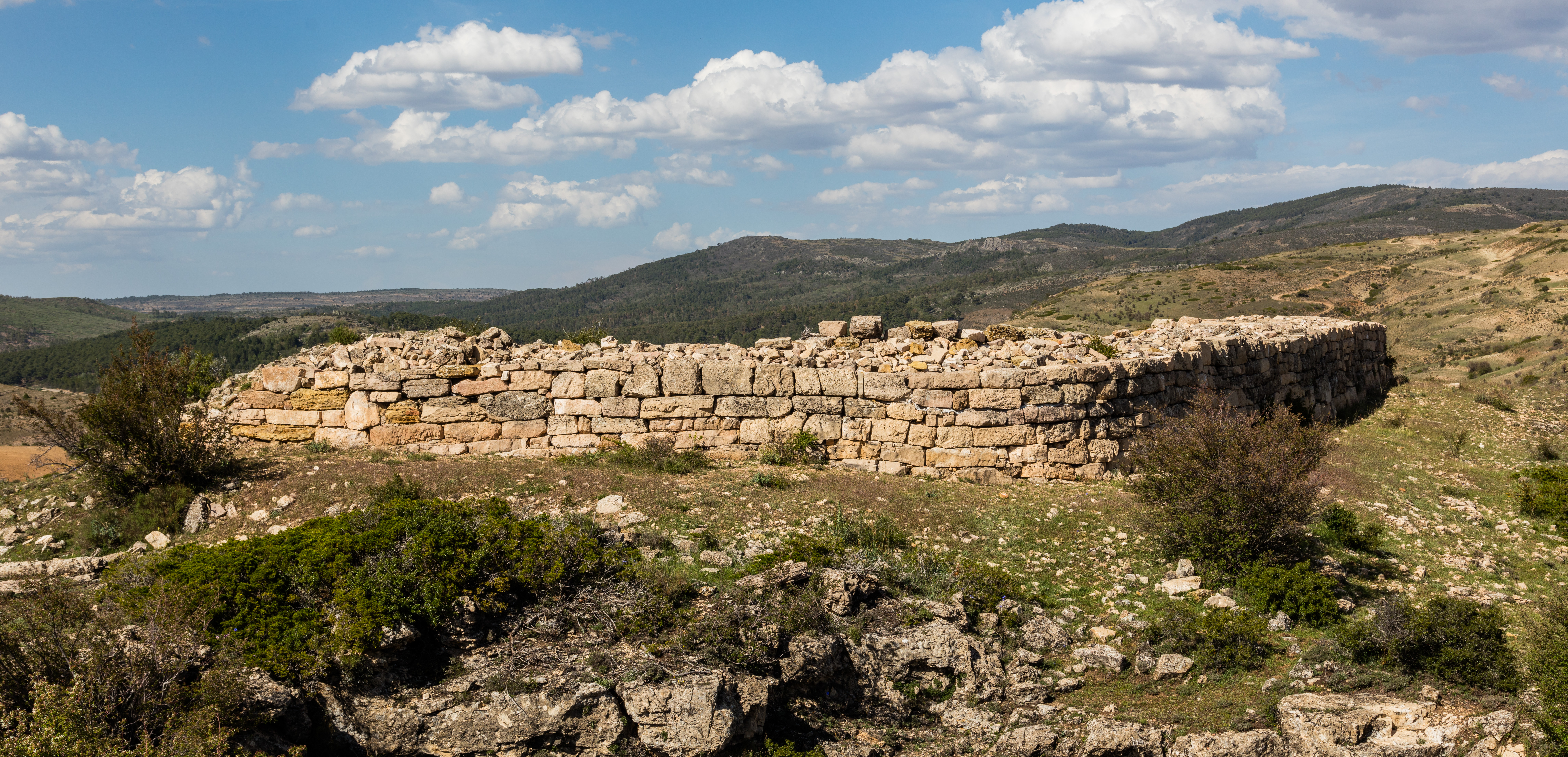 Castil de Griegos, Checa, Guadalajara, Spain